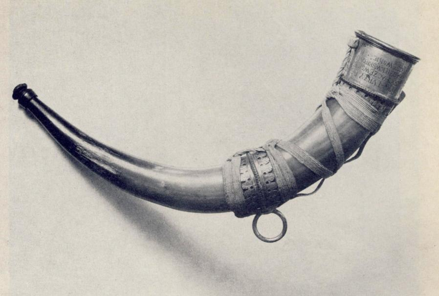 Photograph